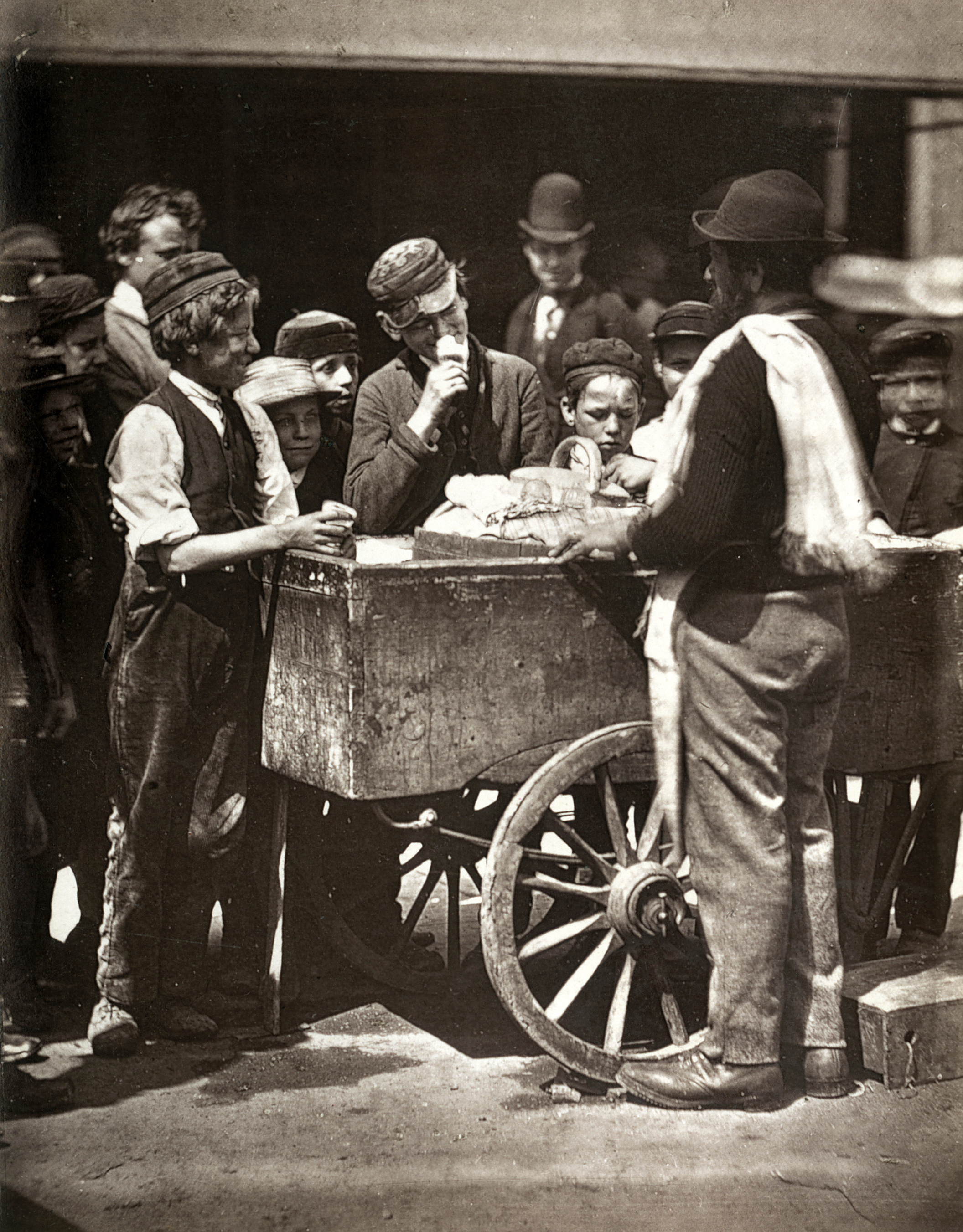 From 'Street Life in London', 1877, by John Thomson and Adolphe Smith. "Italian ice men constitute a distinct feature of London life, which, however, IS generally Ignored by the public at large, so far as It’s intimate details are concerned. we note in various quarters the ice-barrow surrounded by groups of eager and greedy children, but fail to realize what a vast and elaborate organization is necessary to provide this delicacy in all parts of London. Most parsons are aware that there is an Italian colony at Saffron Hill, but it is strange how few visitors ever penetrate this curious quarter… …In little villainous-looking and dirty shops an enormous business is transacted in the sale of milk for the manufacture of halfpenny ices. This trade commences at about four in the morning. The men in varied and extraordinary desltabzlle pour into the streets, throng the milk-shops, drag their barrows out, and begin to mix and freeze the ices. Carlo Gatti has an ice depot close at hand, which opens at four in the morning, and here a motley crowd congregates with baskets, pieces of cloth, flannel, and various other contrivances for carrying away their daily supply of ice. Gradually the freezing process is terminated, and then the men, after dressing themselves in a comparatively-speaking decent manner, start off, one by one, to their respective destinations; It is a veritable exodus. The quarter, at first so noisy and full of bustle, is soon deserted, a few women only remaining to attend to the domestic affairs and to quarrel with their loquacious neighbours." For the full story, and other photographs and commentaries, follow this link and click through to the PDF file at the bottom of the description